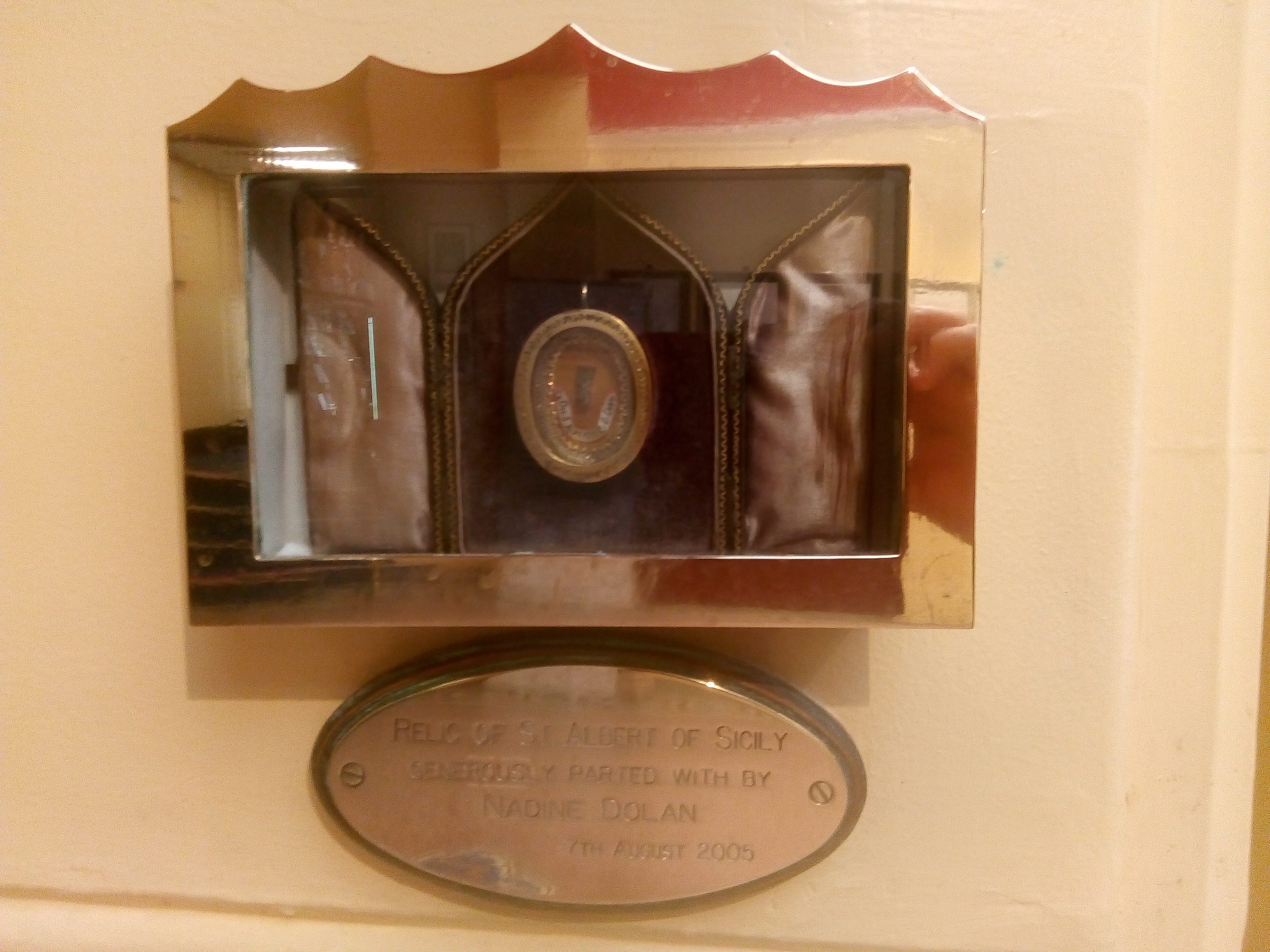 Relic of St Albert of Sicily